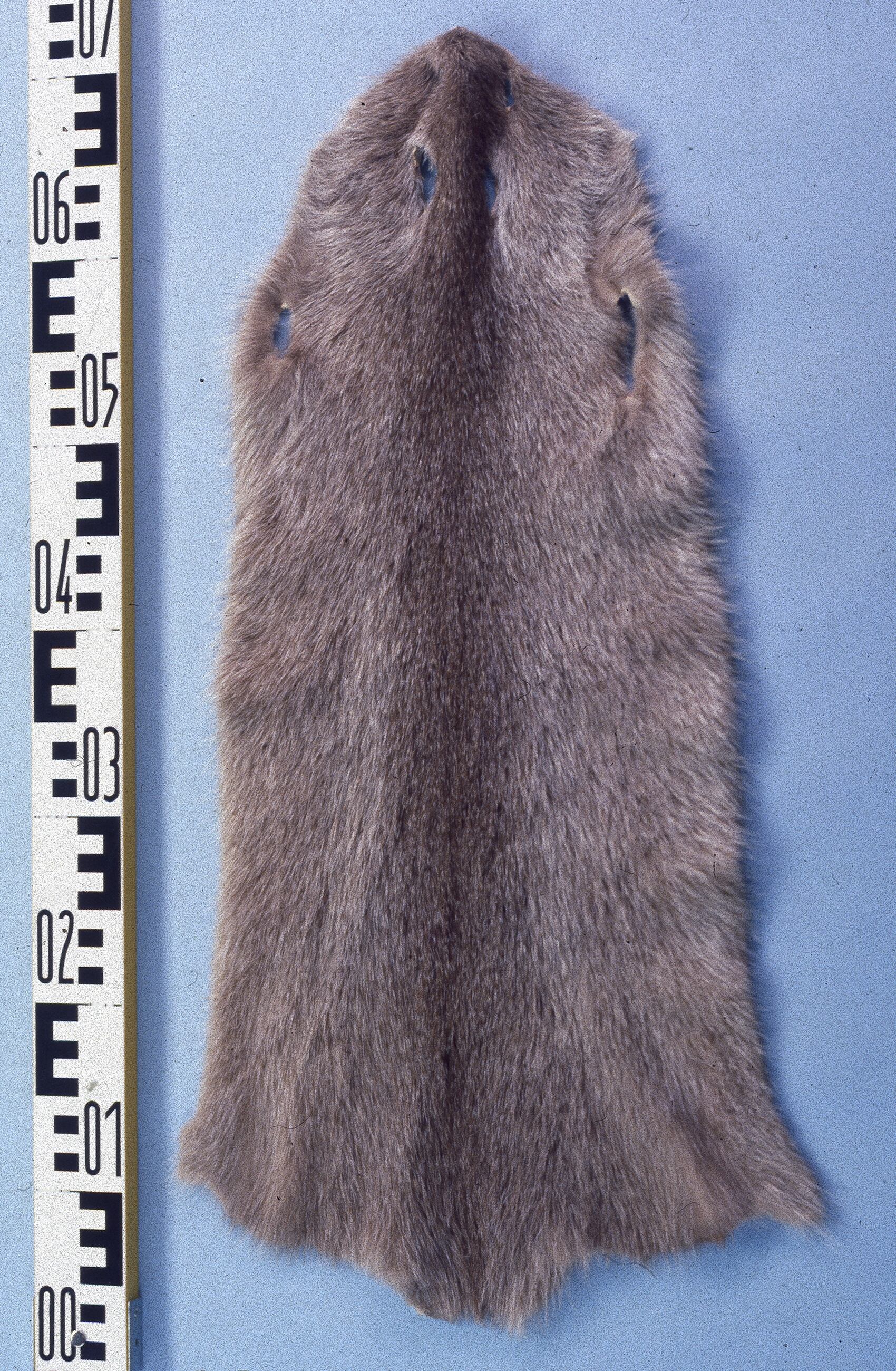 Nutria mutation (Myocastor coypus), breeding. Fur skin collection, Bundes-Pelzfachschule, Frankfurt/Main, Germany